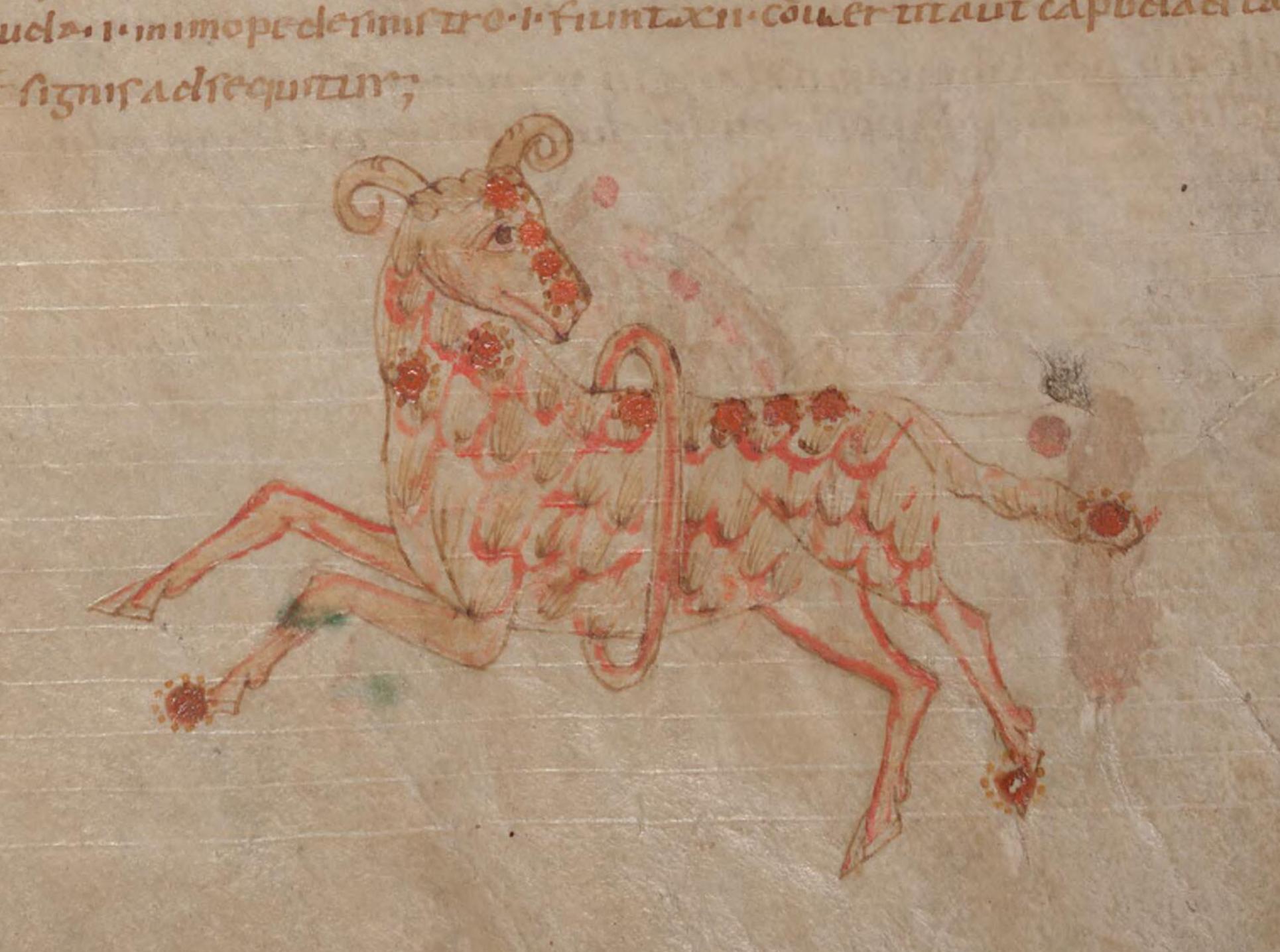 The oldest scientific manuscript in the National Library the volume contains various Latin texts on astronomy. The volume, written in Caroline minuscule, consists of two sections, the first (ff. 1-26) copied c. 1000, in the Limoges area of France, probably in the milieu of Adémar de Chabannes (989-1034), whilst the second (ff. 27-50), from a scriptorium in the same region, may be dated c. 1150.